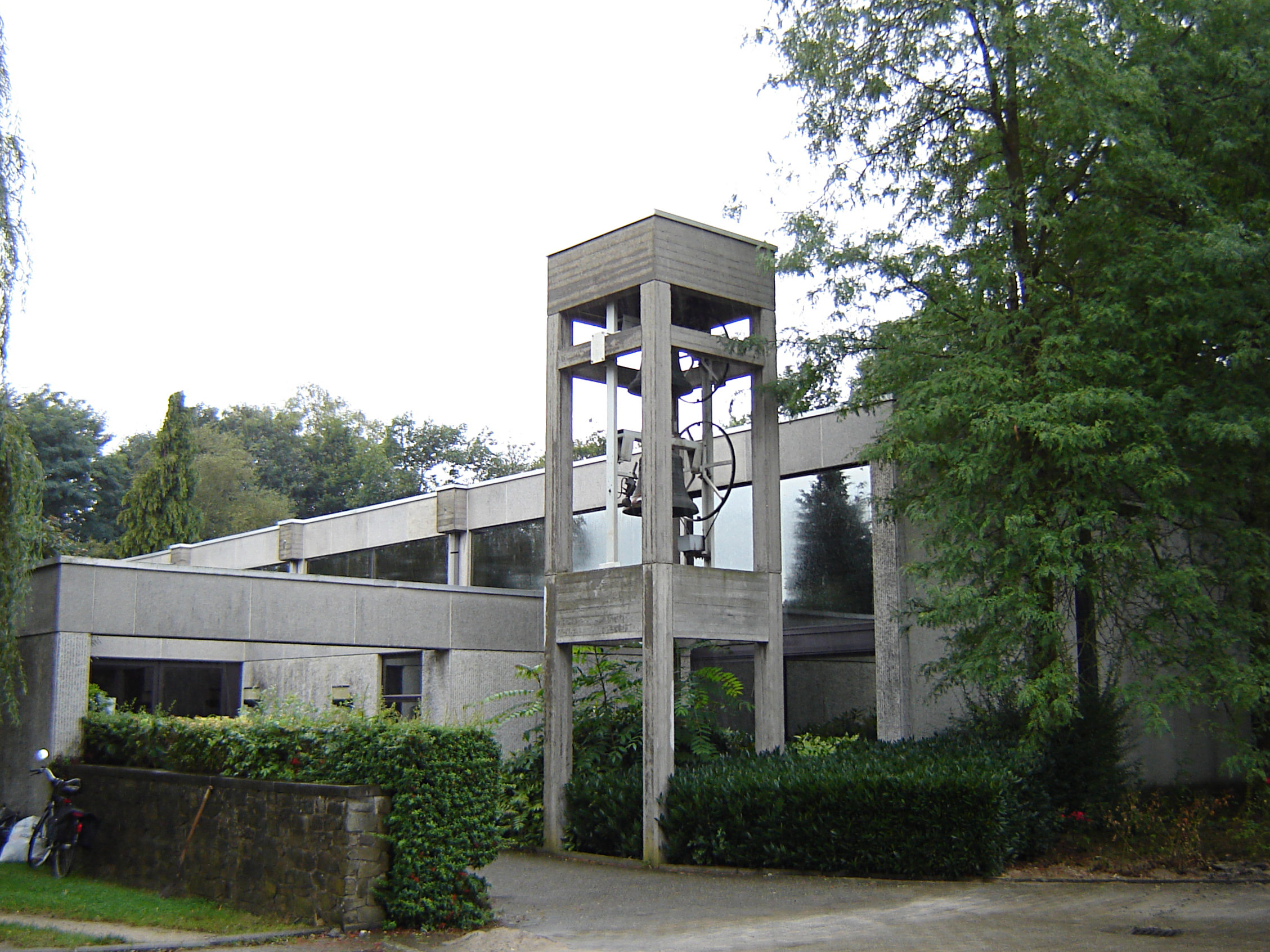 Church of the Assumption of Mary in Overschelde. Overschelde, Wetteren, East Flanders, Belgium